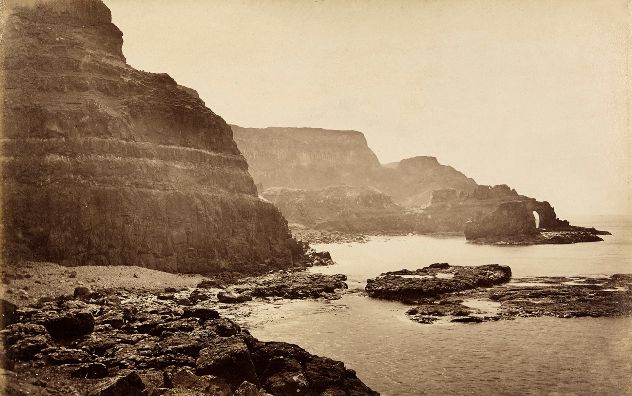 View across Port-Na Spaniagh toward Lacada Point and the Spanish Rocks -- County Antrim, Northern Ireland, c.1888.